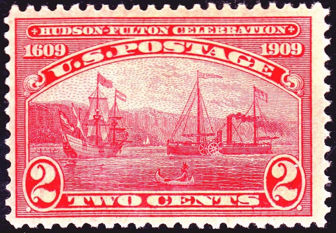 US Postage Stamp, Fulton on the Hudson, 1909 Issue, 2c. In 1609, Henry Hudson discovered the Hudson River aboard his ship, the Half Moon. Just 200 years later, in 1807, Robert Fulton navigated the Hudson River in his steamship, the Clermont. In a joint celebration of both events, the Post Office issued this variety to commemorate the 300th anniversary of the discovery of the Hudson River and the 100th Anniversary of Robert Fulton's steamship. Interestingly, the stamp inscription only specifies the discovery of the Hudson River. Fulton’s achievement is represented by the appearance of the steamboat Clermont in the central design. The stamp was issued to coincide with the Hudson-Fulton Celebration, which was organized by a group of influential New Yorkers that included financial titans J.P. Morgan and Andrew Carnegie. The festivities included a grand naval parade focusing on U.S. naval supremacy, public flights by Wilbur Wright, and a visit by the RMS Lusitania. The Hudson-Fulton Celebration commemorative stamp was issued perforate and imperforate, although it was a poor fit for private vending machines.